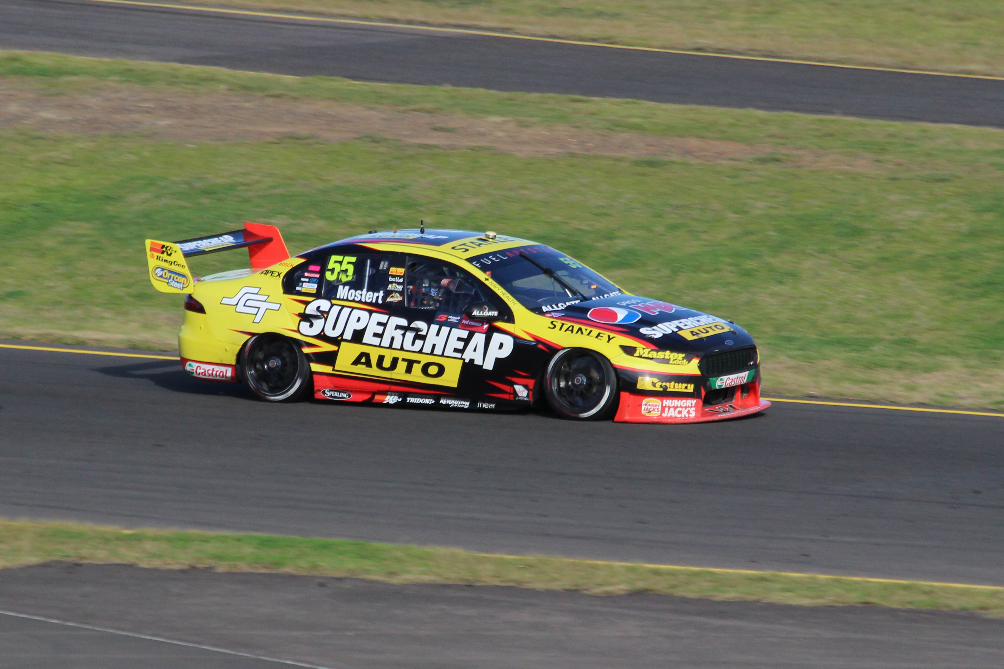 Chaz Mostert (Rod Nash Racing Ford FG X Falcon) during qualifying for Race 19 at the 2016 Red Rooster Sydney SuperSprint.